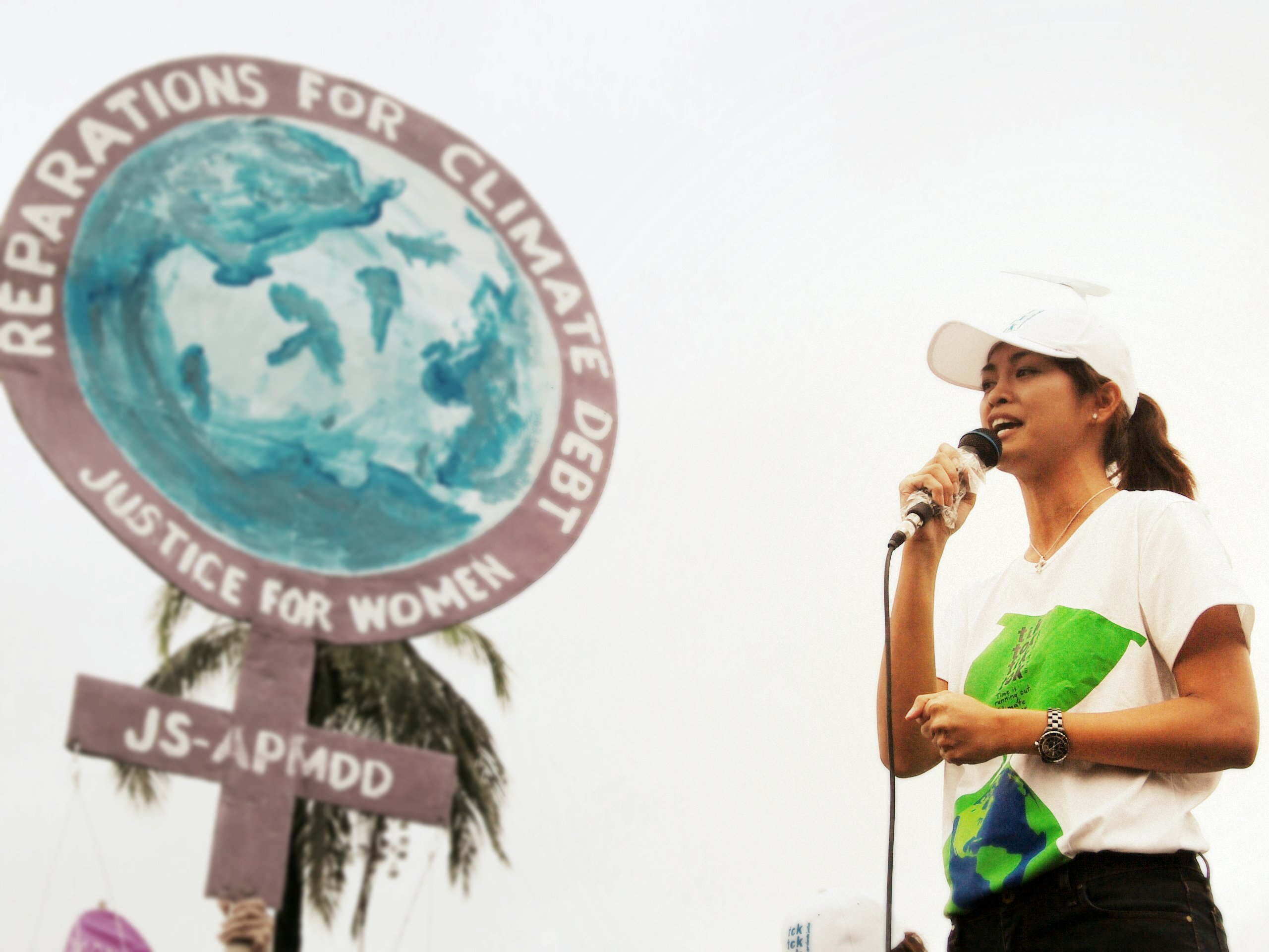 Filipina beauty queen Miriam Quiambao lends her support to the women of Asia during the Global Gender and Climate Alliance march to the UNESCAP to demand gender and climate justice.